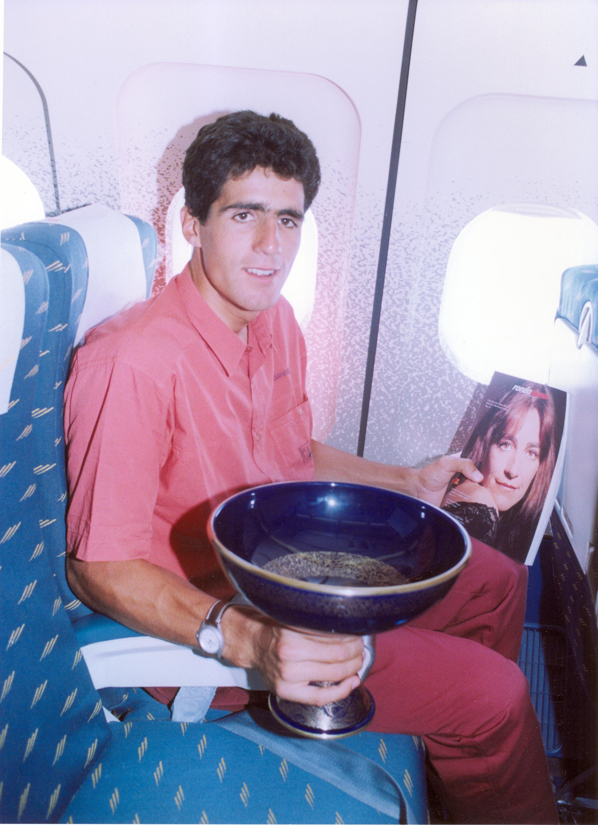 Miguel Induráin on a Iberia airplane.